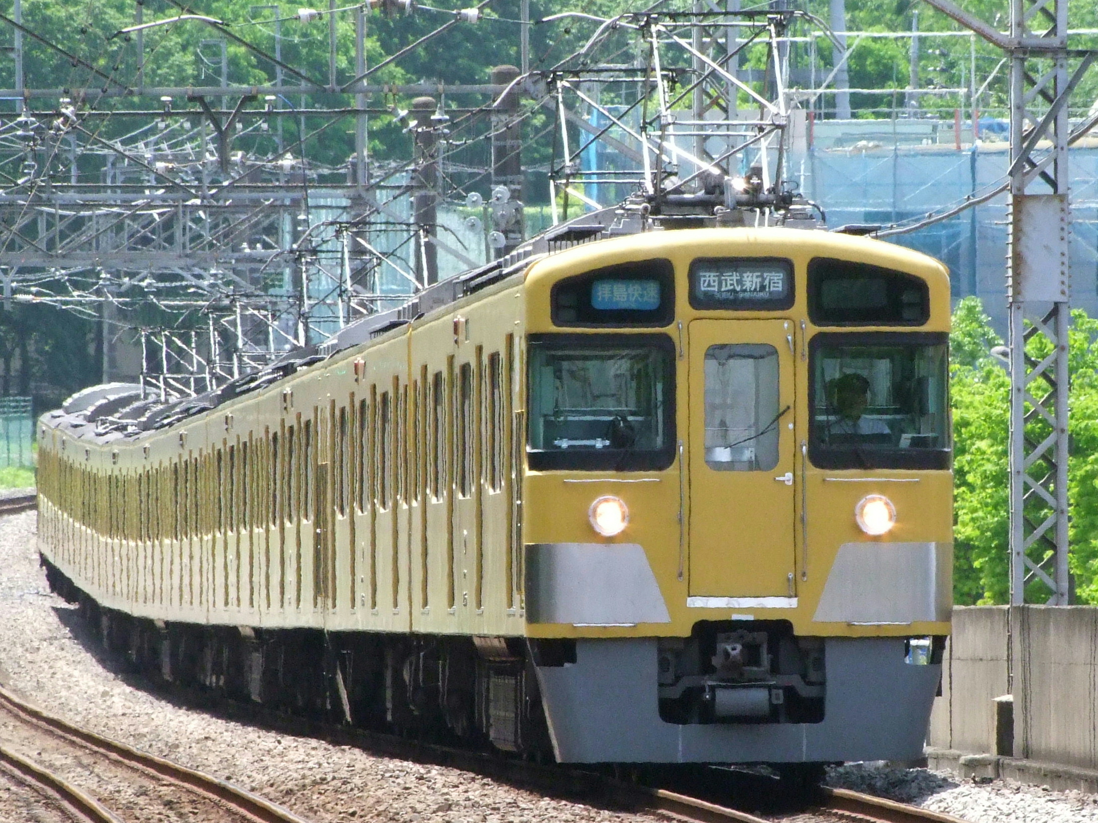 Seibu 2000 series.Seibu Haijima Line Haijima Rapid (Haijima-Kaisoku) train, at Higashiyamatoshi Station.